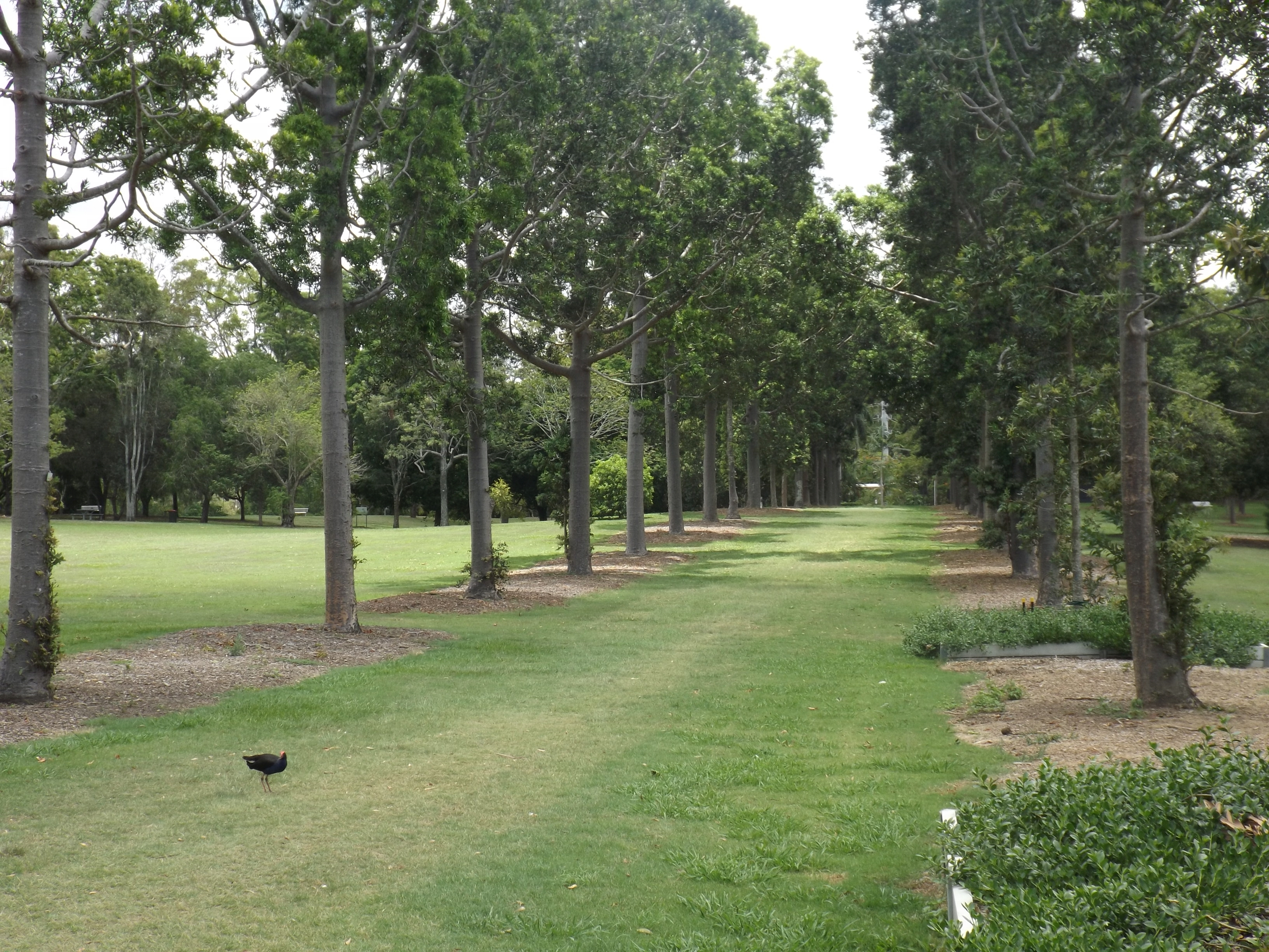 Photo of Queensland kauri plantings along Sir Mathew Nathan Avenue at Sherwood Arboretum in Sherwood, Brisbane, Queensland, Australia.